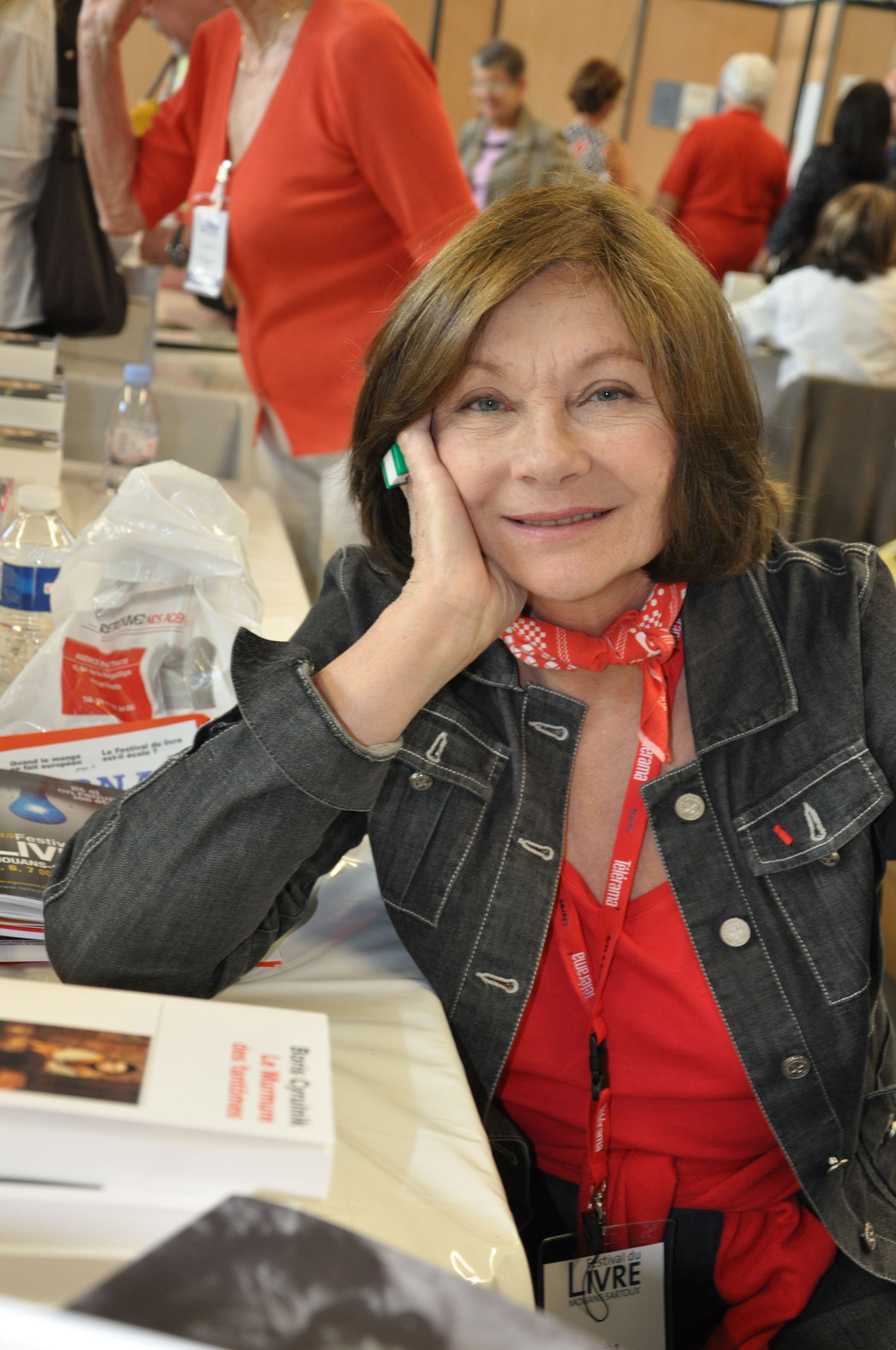 Macha Méril at the 2012 Mouans-Sartoux Literature Festival.